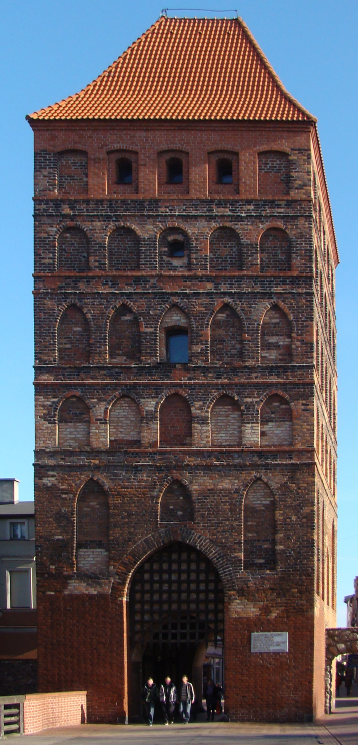 Czluchowska's Gate in Chojnice (front side)